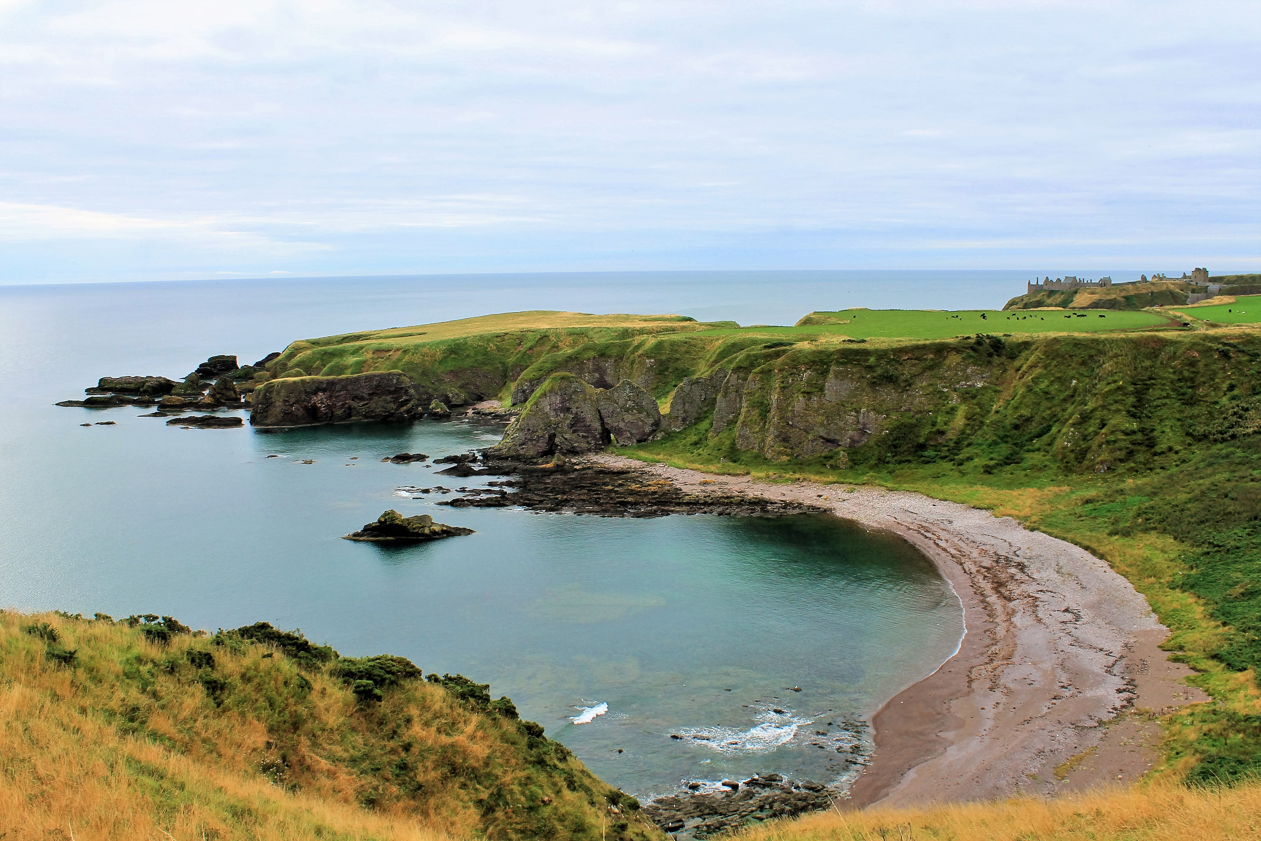 Strathlethan Bay